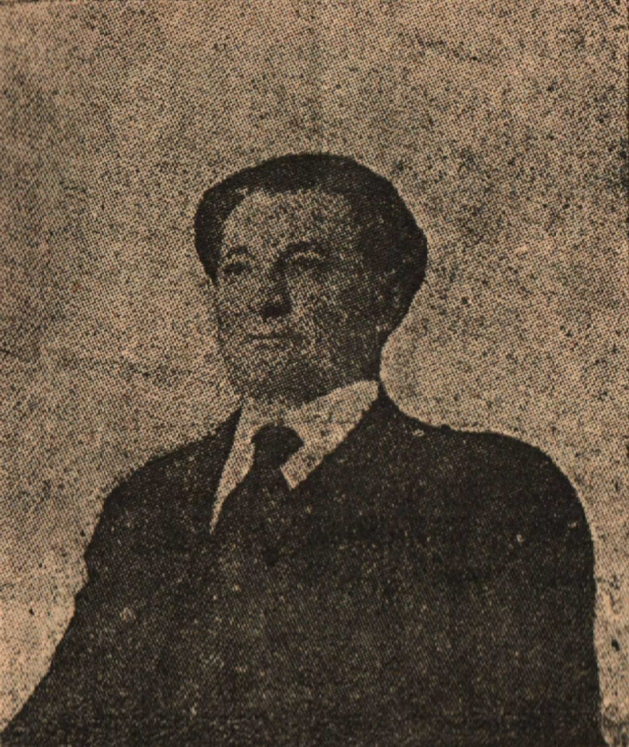 Bulgarian actor Konstantin Sapunov (1844-1916)